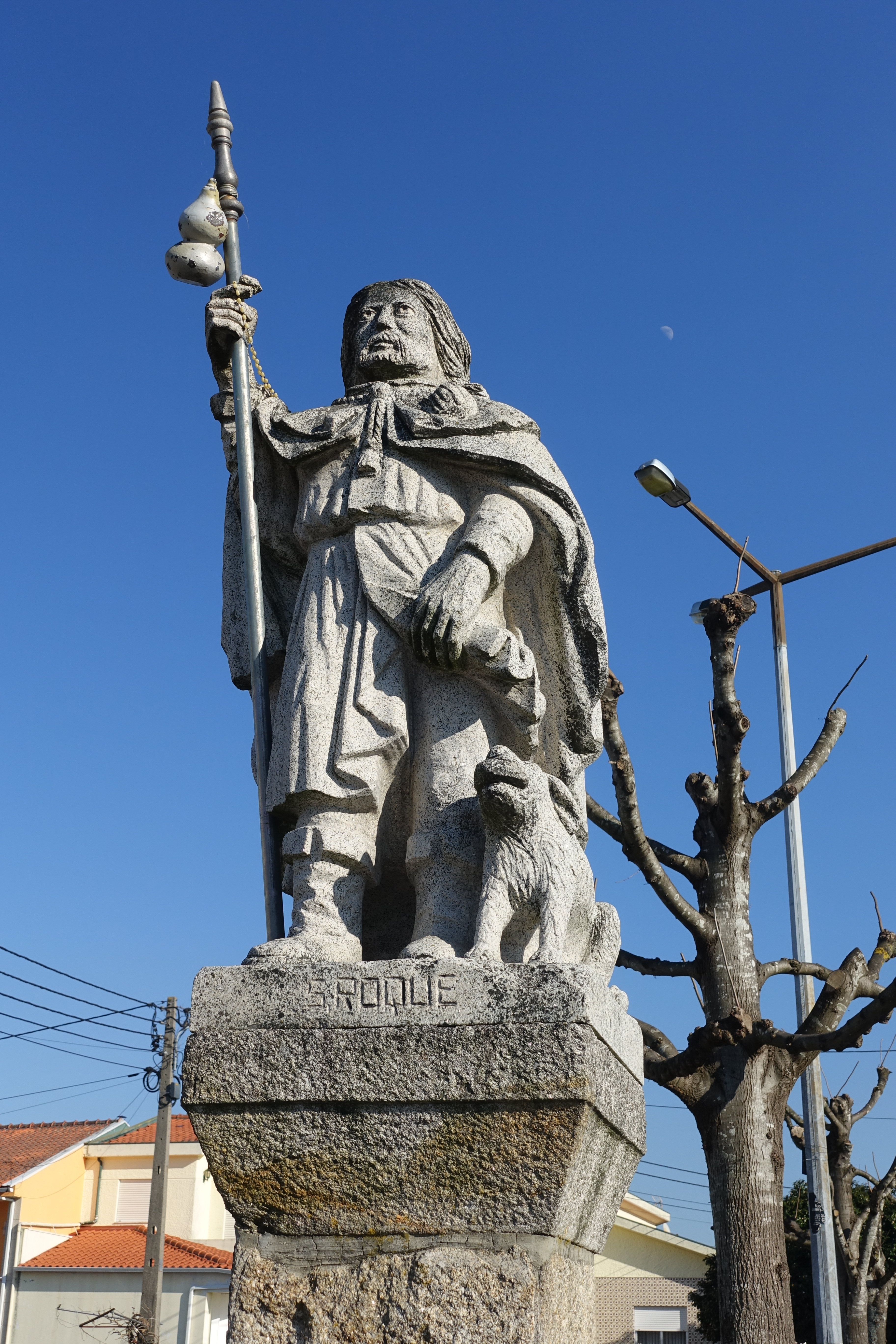 São Paio de Merelim, Portugal.